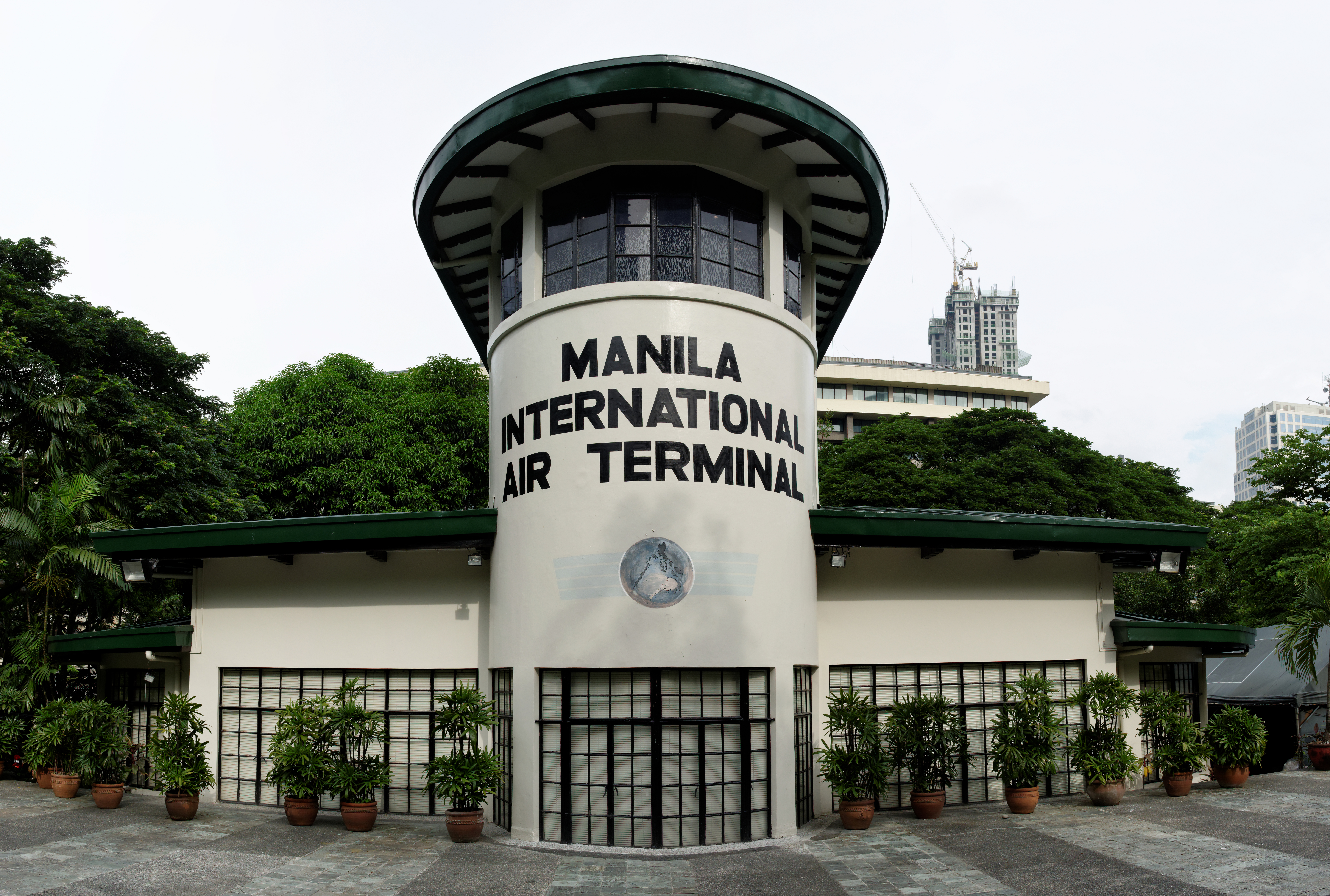 A photo of the current Nielson Field Terminal.